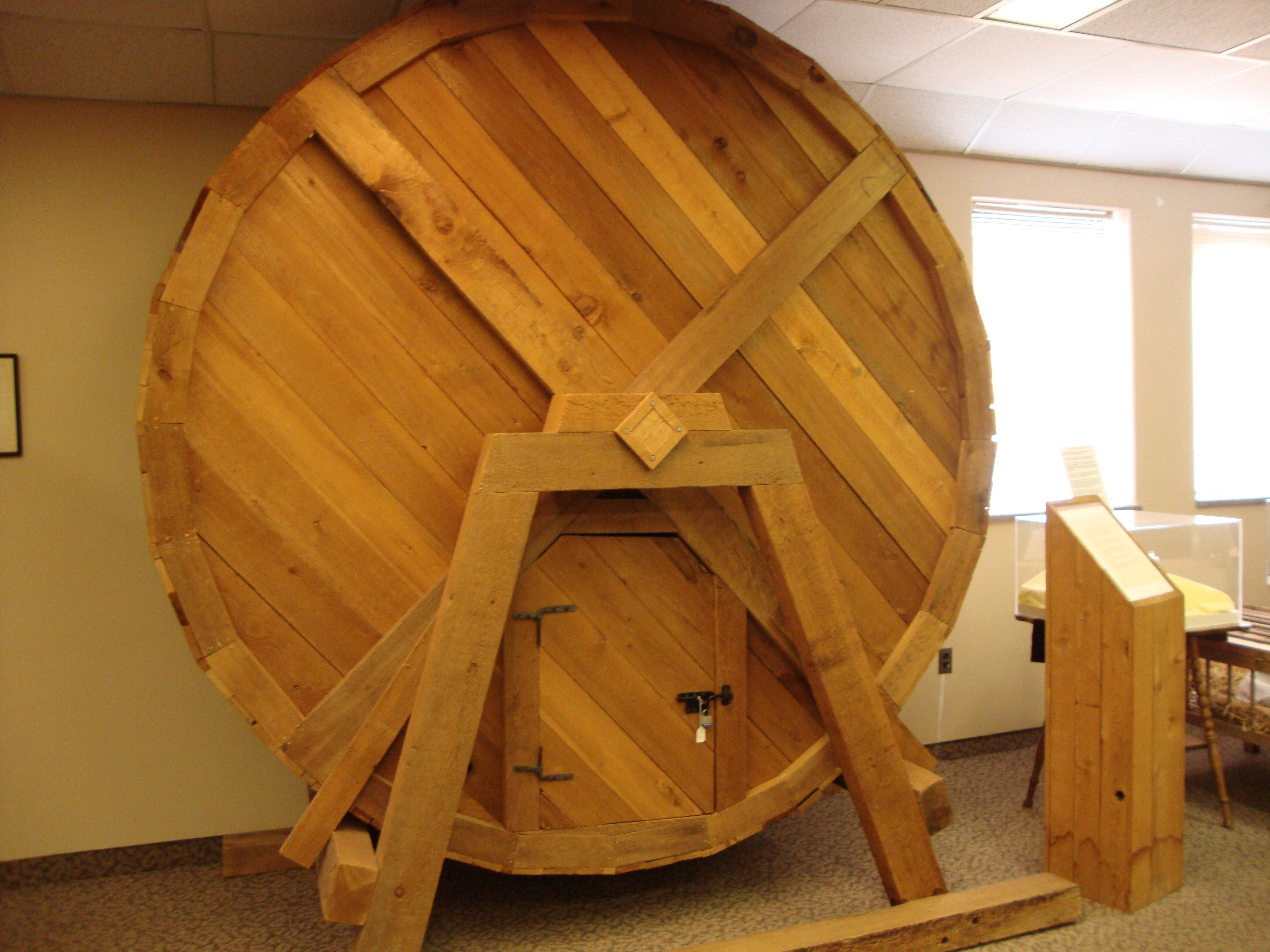 The giant patient treadmill, to allow patients to walk their worries away.